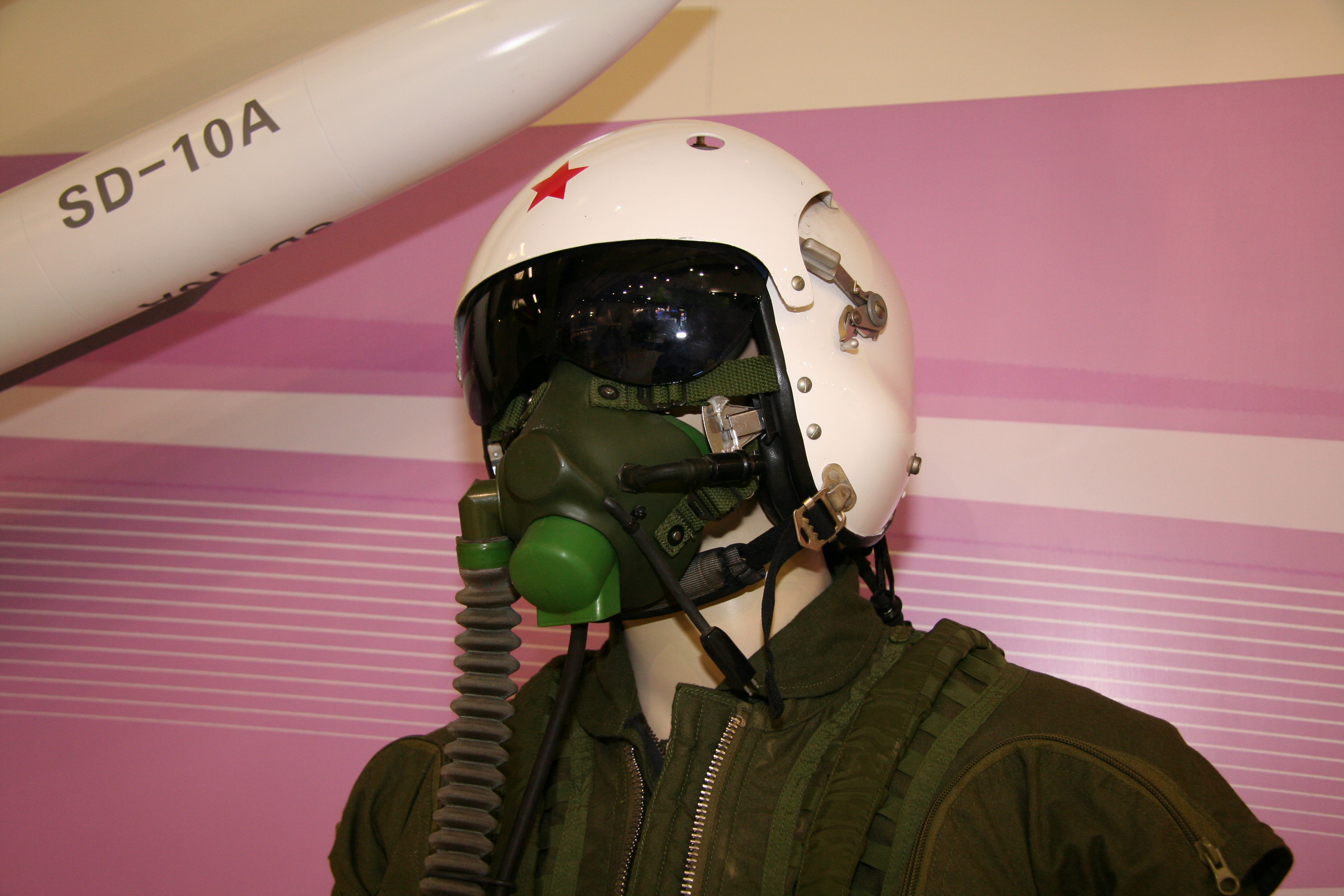 Pilot helmet - Paris Air Show 2009